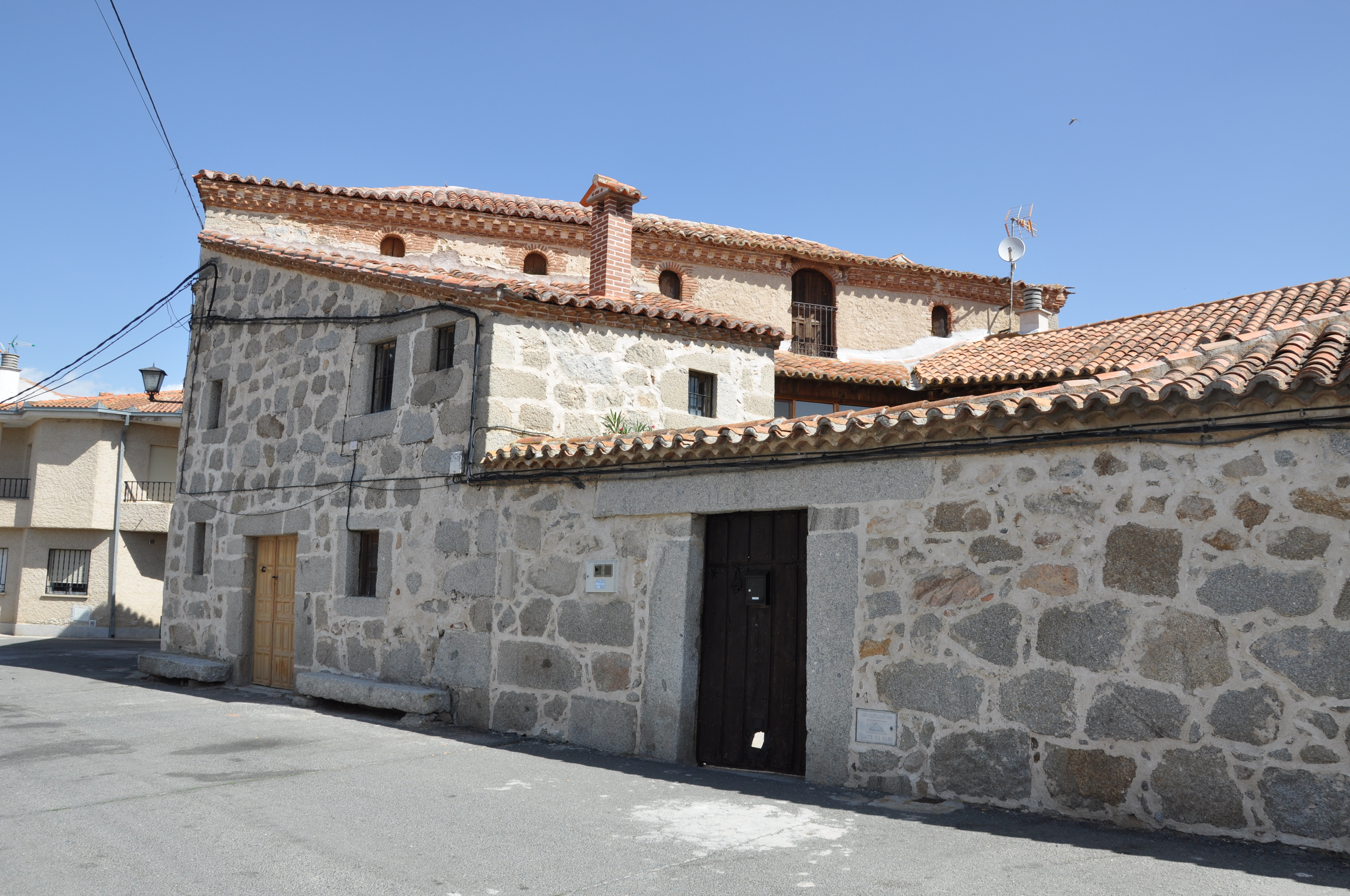 Padiernos stone house in Ávila, Spain